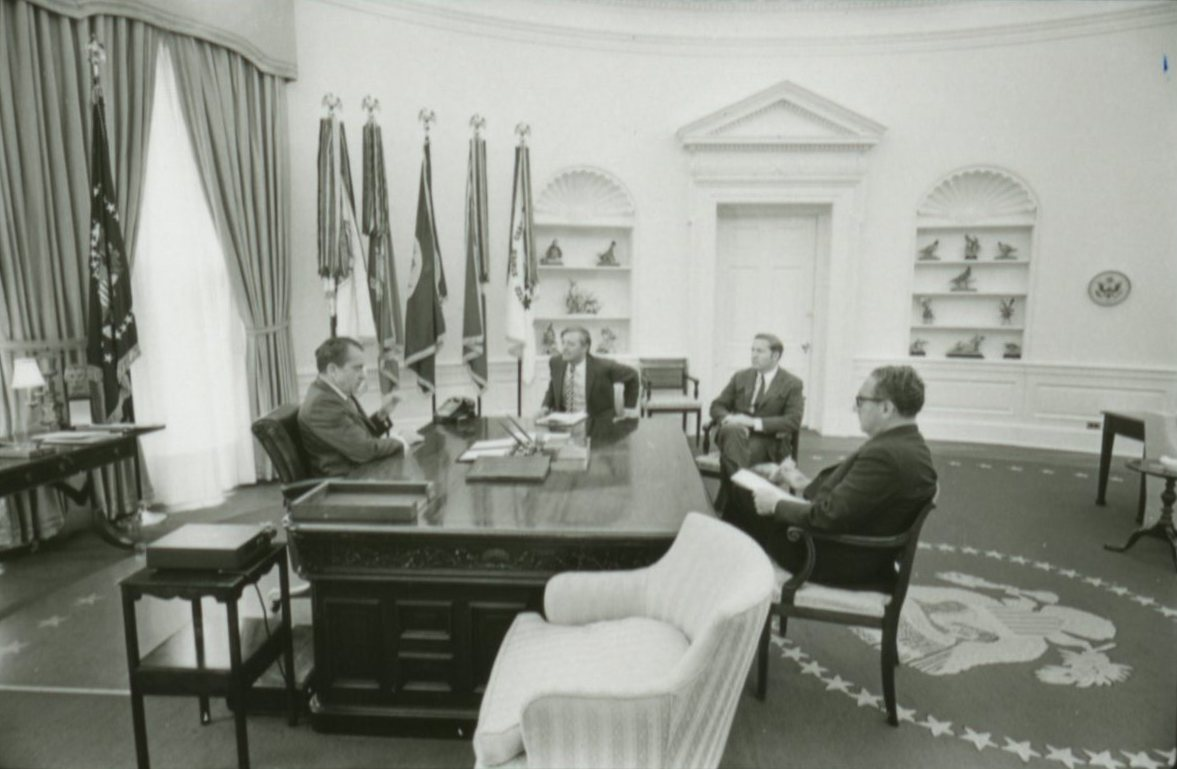 ● Frame(s): WHPO-3649-01-04, President Nixon meeting with William F. Buckley (USIA Advisory Commission), Frank Shakespeare (Director at USIA) and Henry Kissinger. 6/9/1970, Washington, D.C., White House, Oval Office. President Nixon, William F. Buckley, Frank Shakespeare, Henry Kissinger